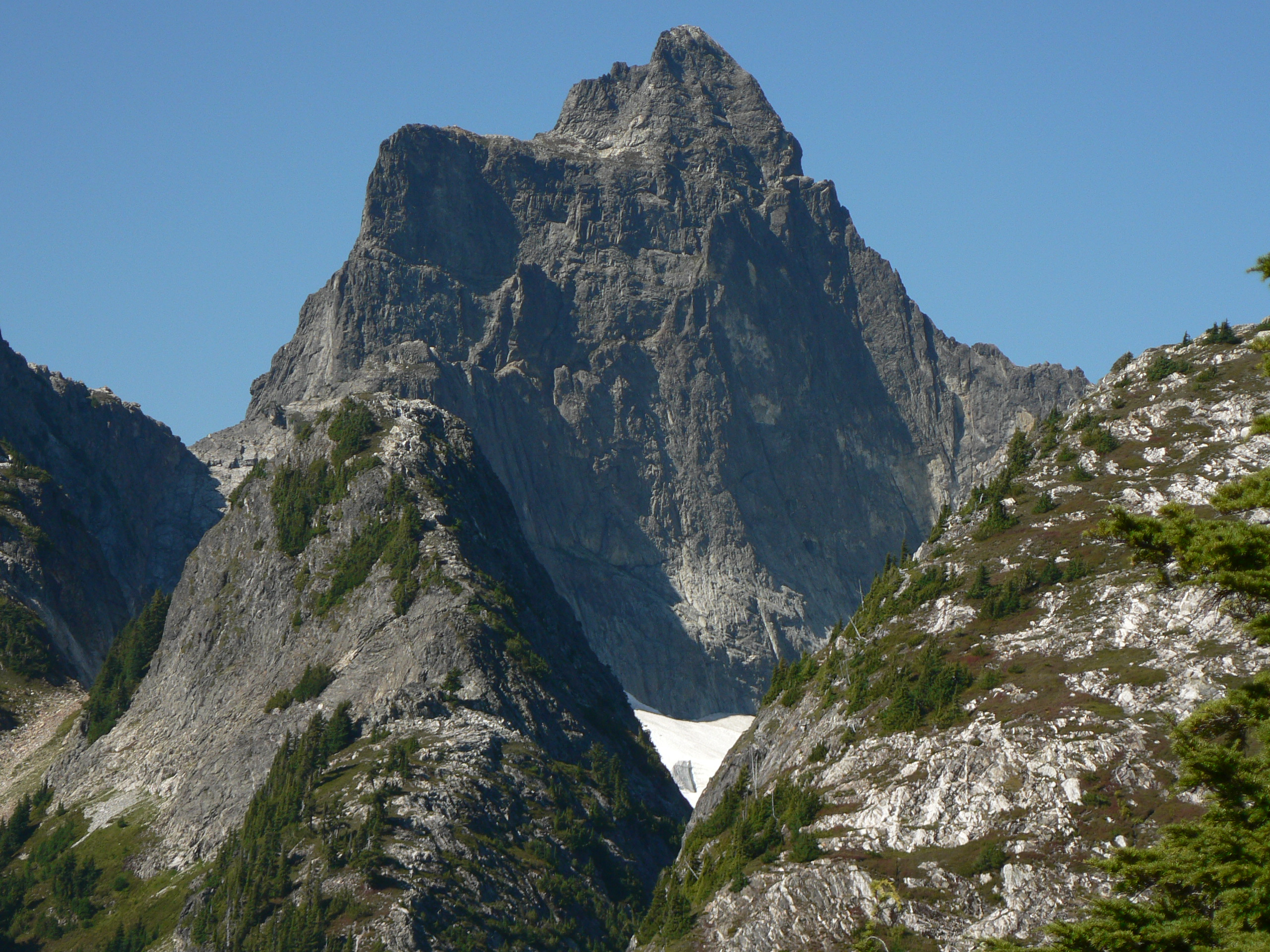 Mount Triumph 7240+ feet, 2207+ meters